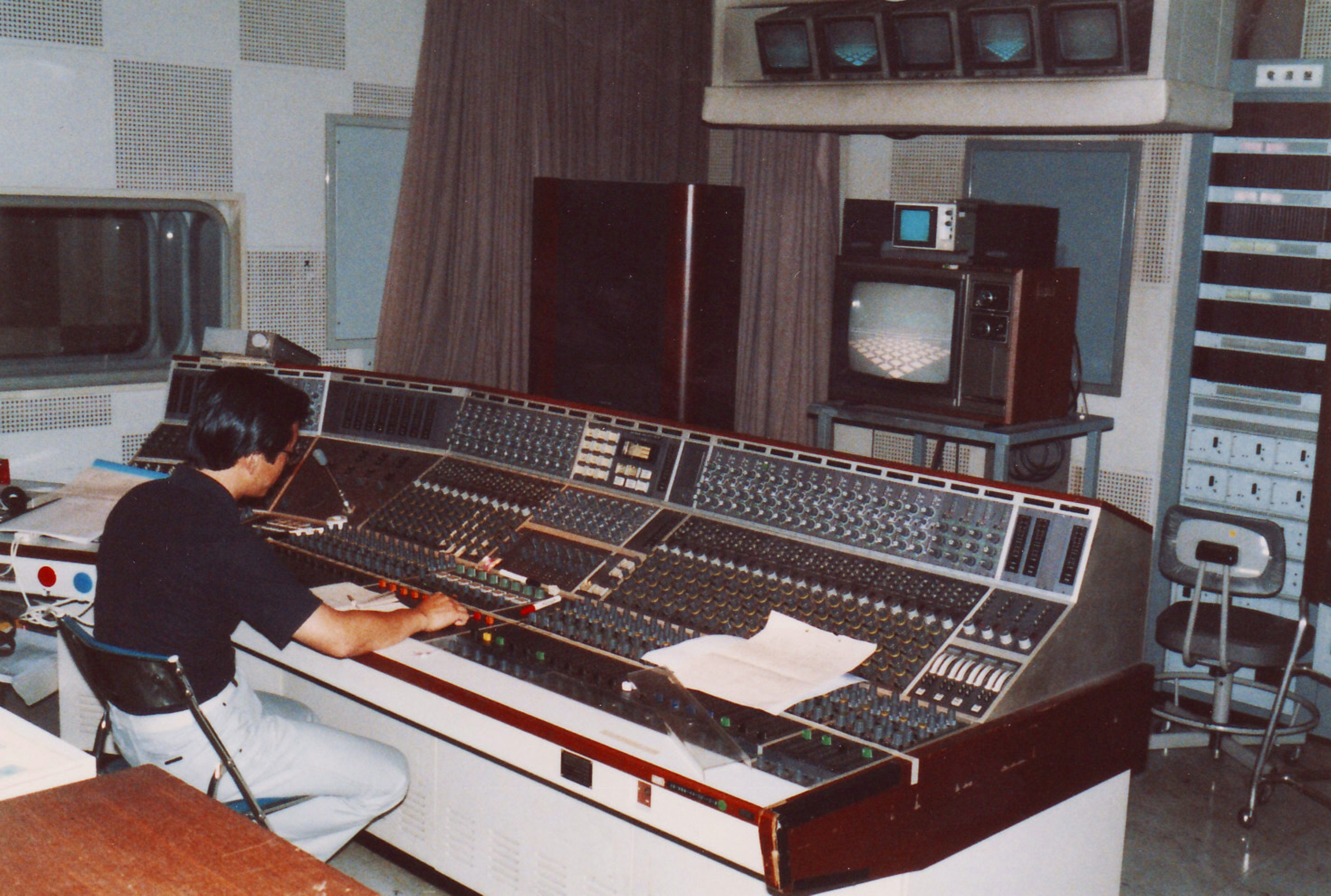 NHK's sound control room - Audio Control Room NHK, Tokyo Sound control room audio mixing desk. Leaving the background image of the monitor. Photographed in Tokyo, NHK television company, multi-camera studio in October 1987.